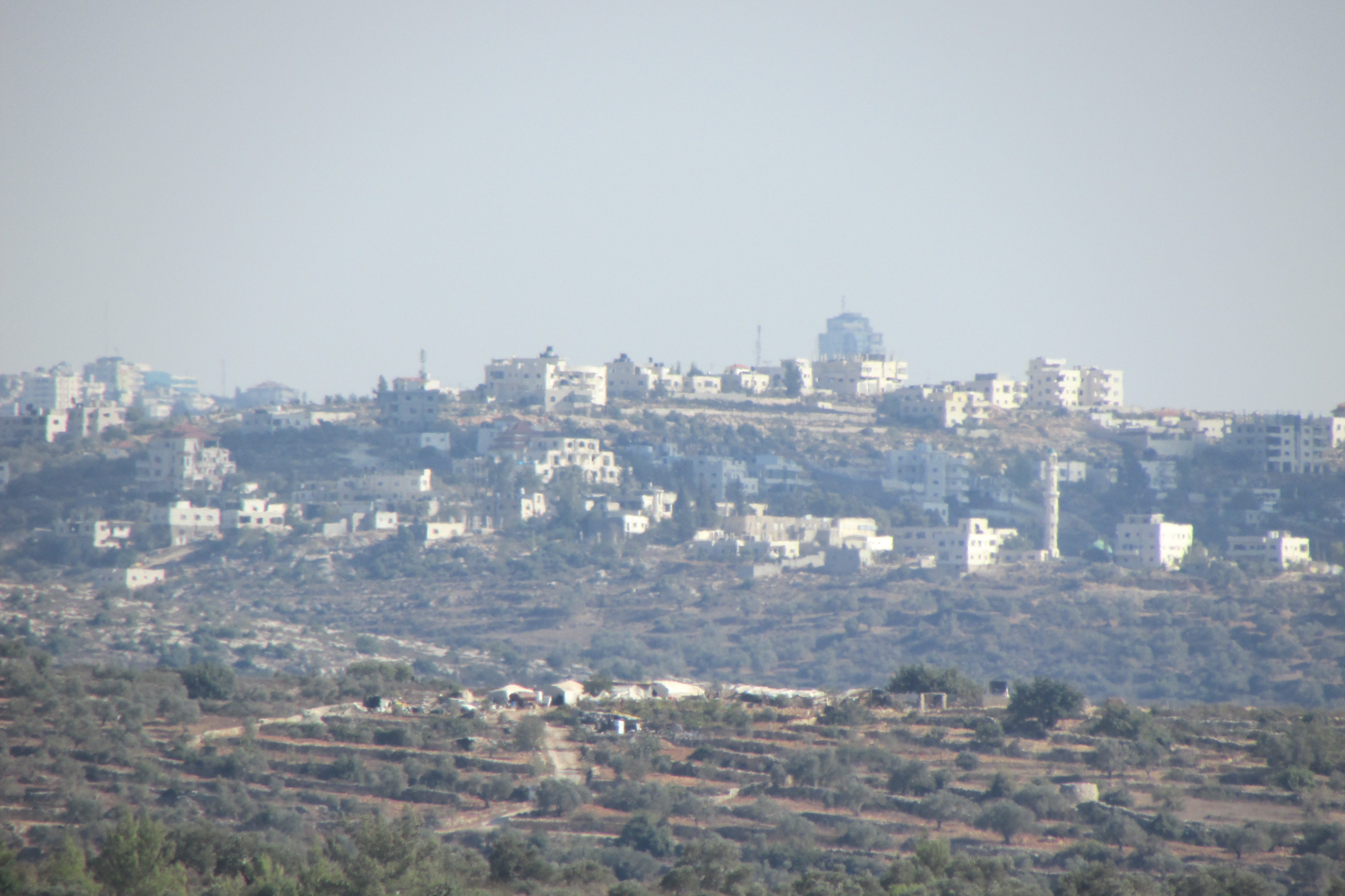 Al-Zaitounah. Behind are houses of Ramallah. Taken from Halamish.